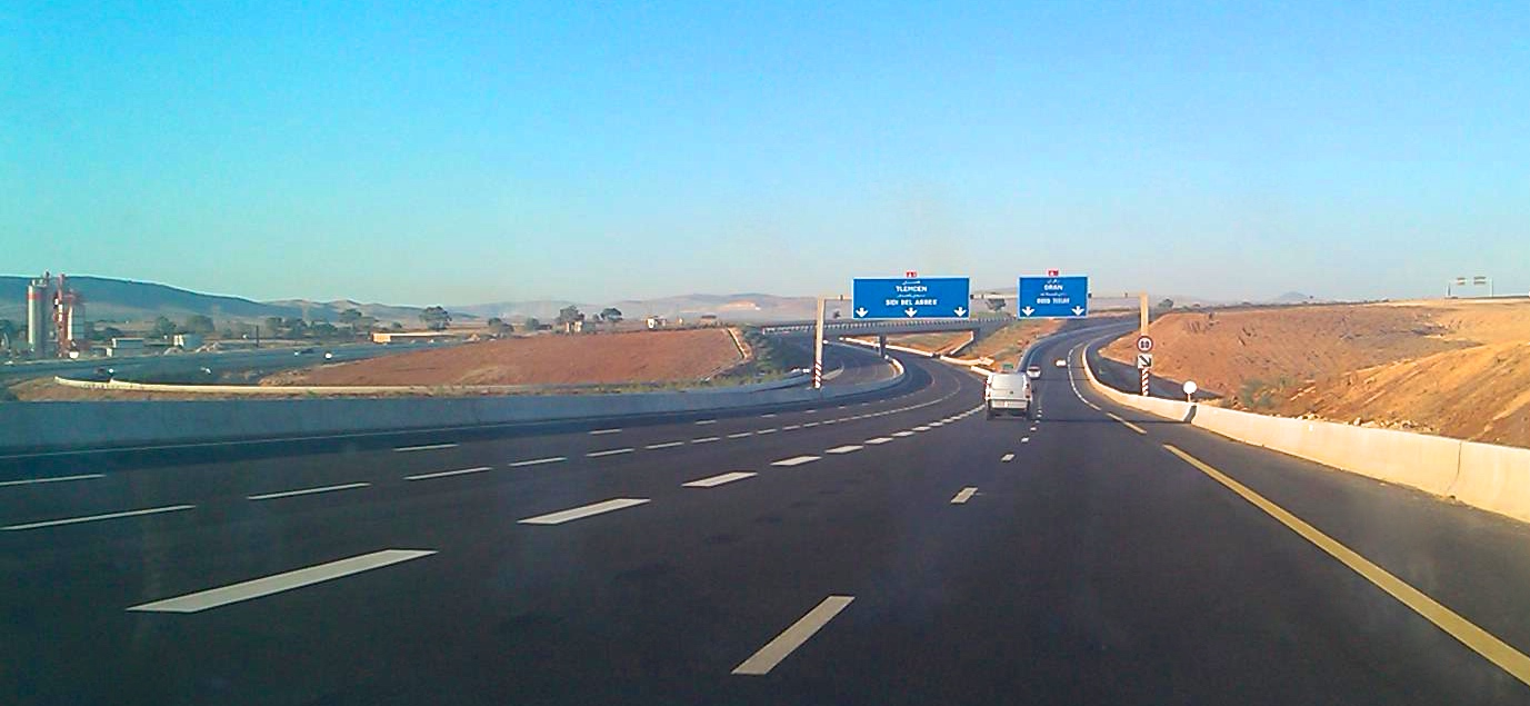 East-West highway in the vicinity of Wahran. (Algeria)